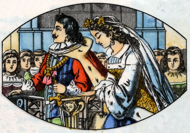 Illustration from "Cendrillon" by French author Charles Perrault (1628-1703)